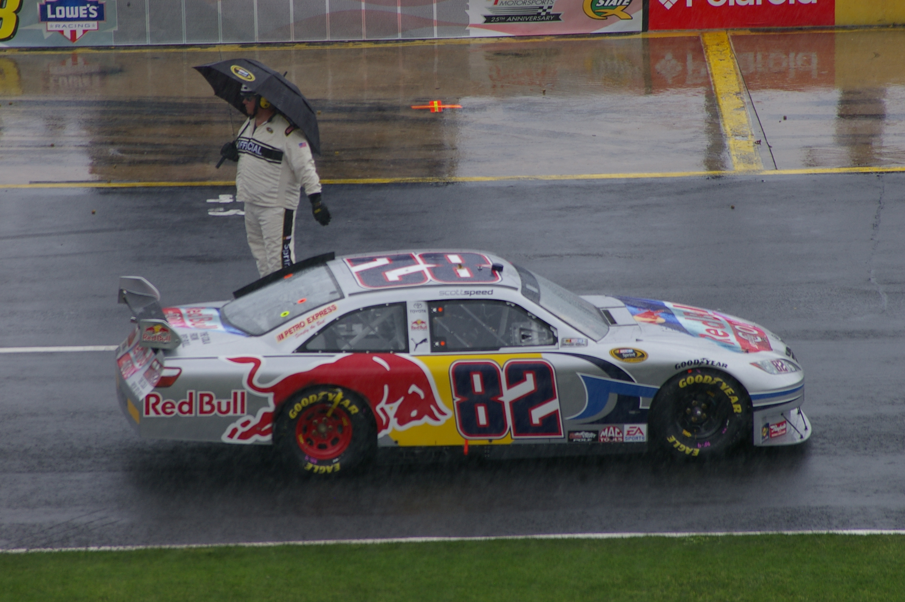 Scott Speed driving the #82 Toyota Camry for the Red Bull Racing Team. 2009 Coca-Cola 600 at Charlotte Motor Speedway